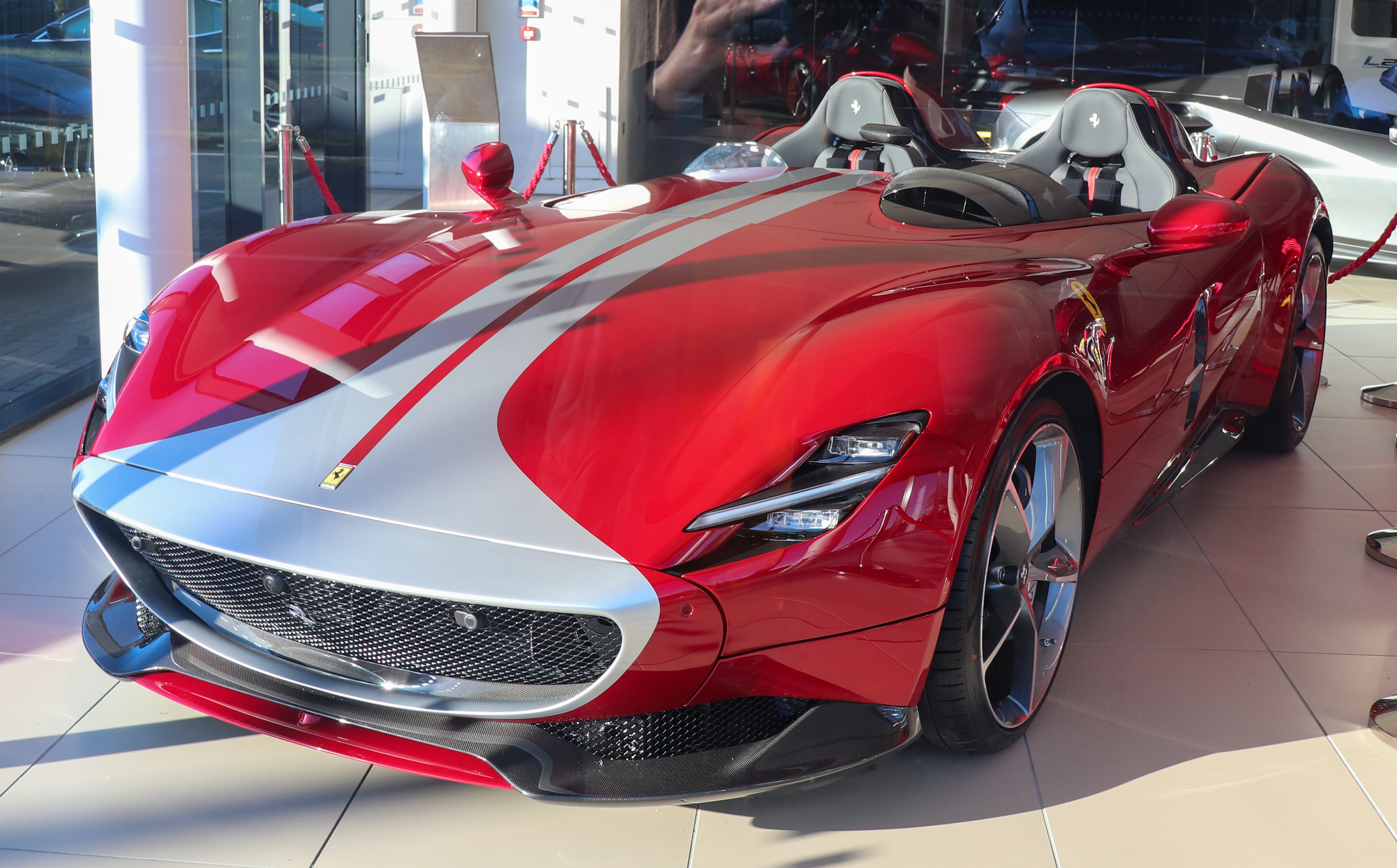 2019 Ferrari Monza SP2 Taken in Solihull